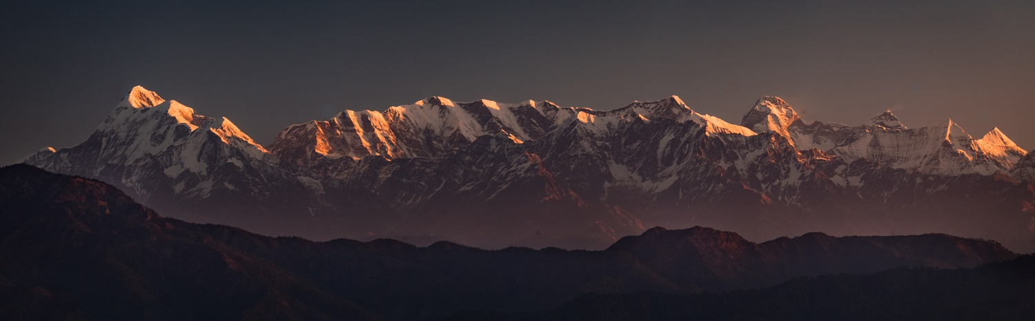 View of the Himalayan peaks from Ranikhet, India, in November of 2019, just as the sunlight begins kissing the peaks.